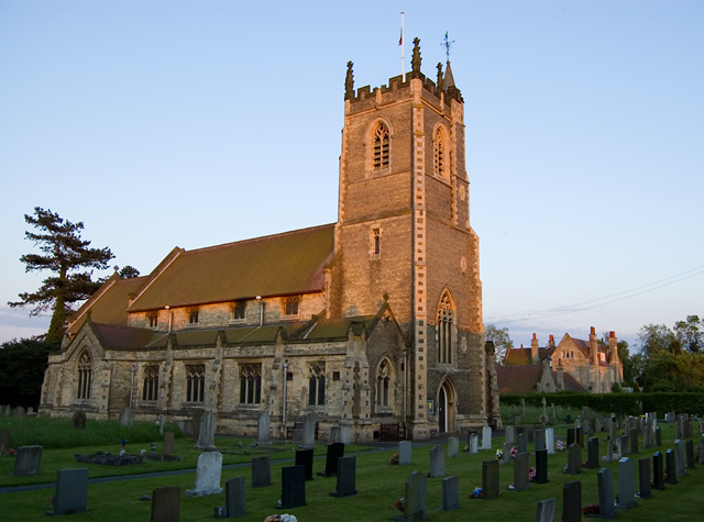 St Stephen's Church, Newport, East Riding of Yorkshire, England.The church is on Main Road at the western end of the village.